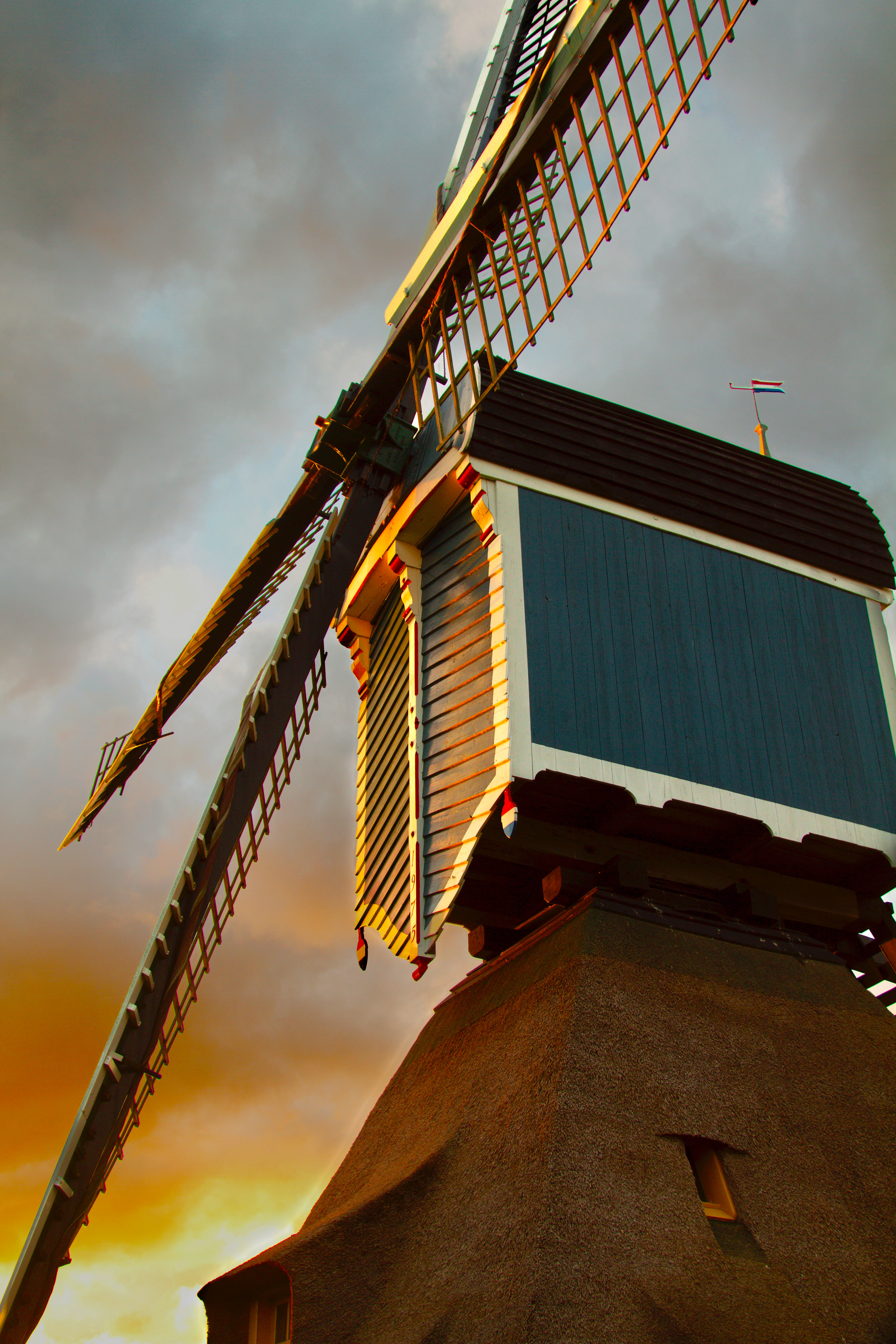 Dutch windmill